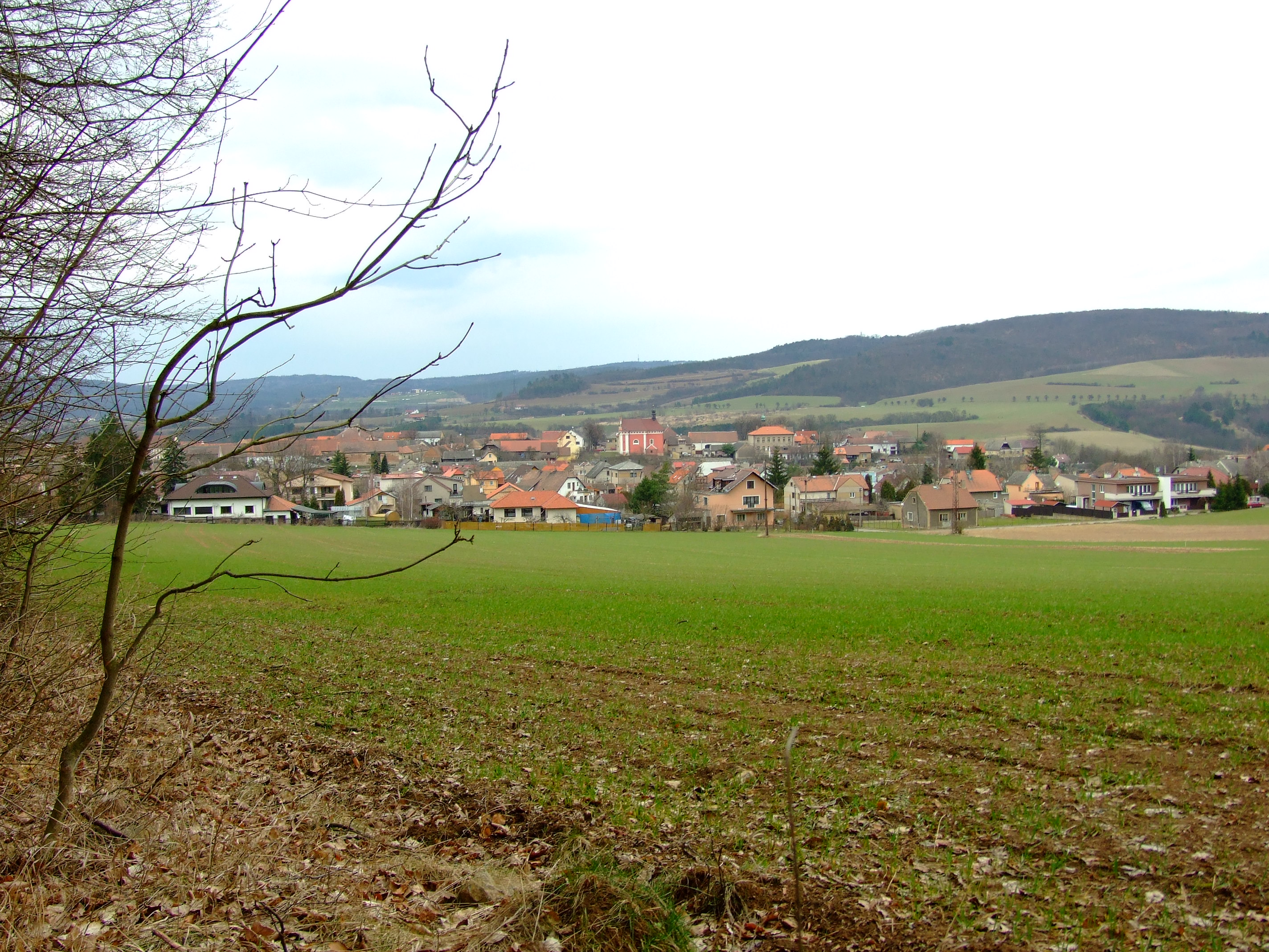 Town of Tetín and its surrounding nature in Central Bohemian region, CZhelp